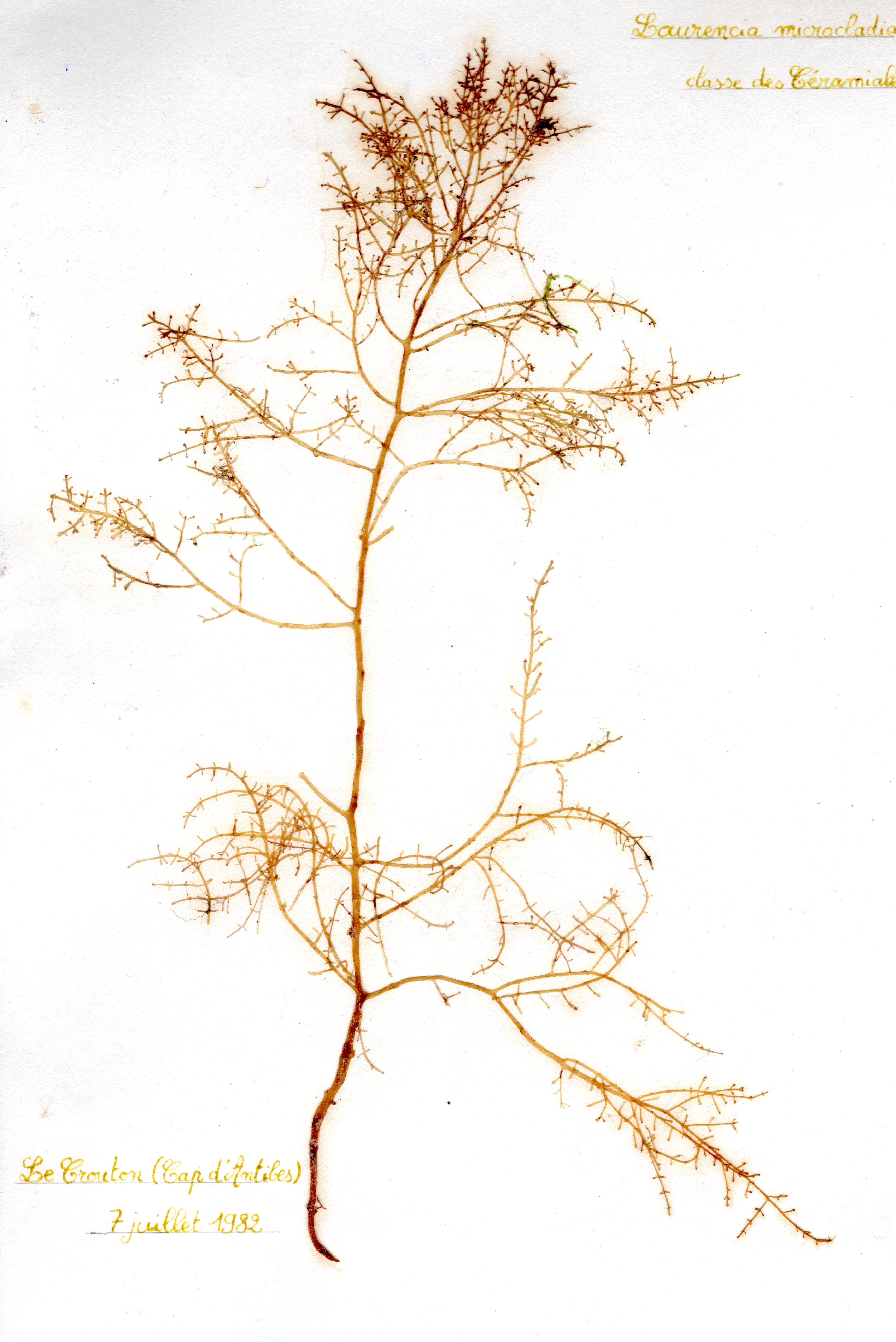 Laurencia microcladia personnal herbarium item collected near Cap d'Antibes